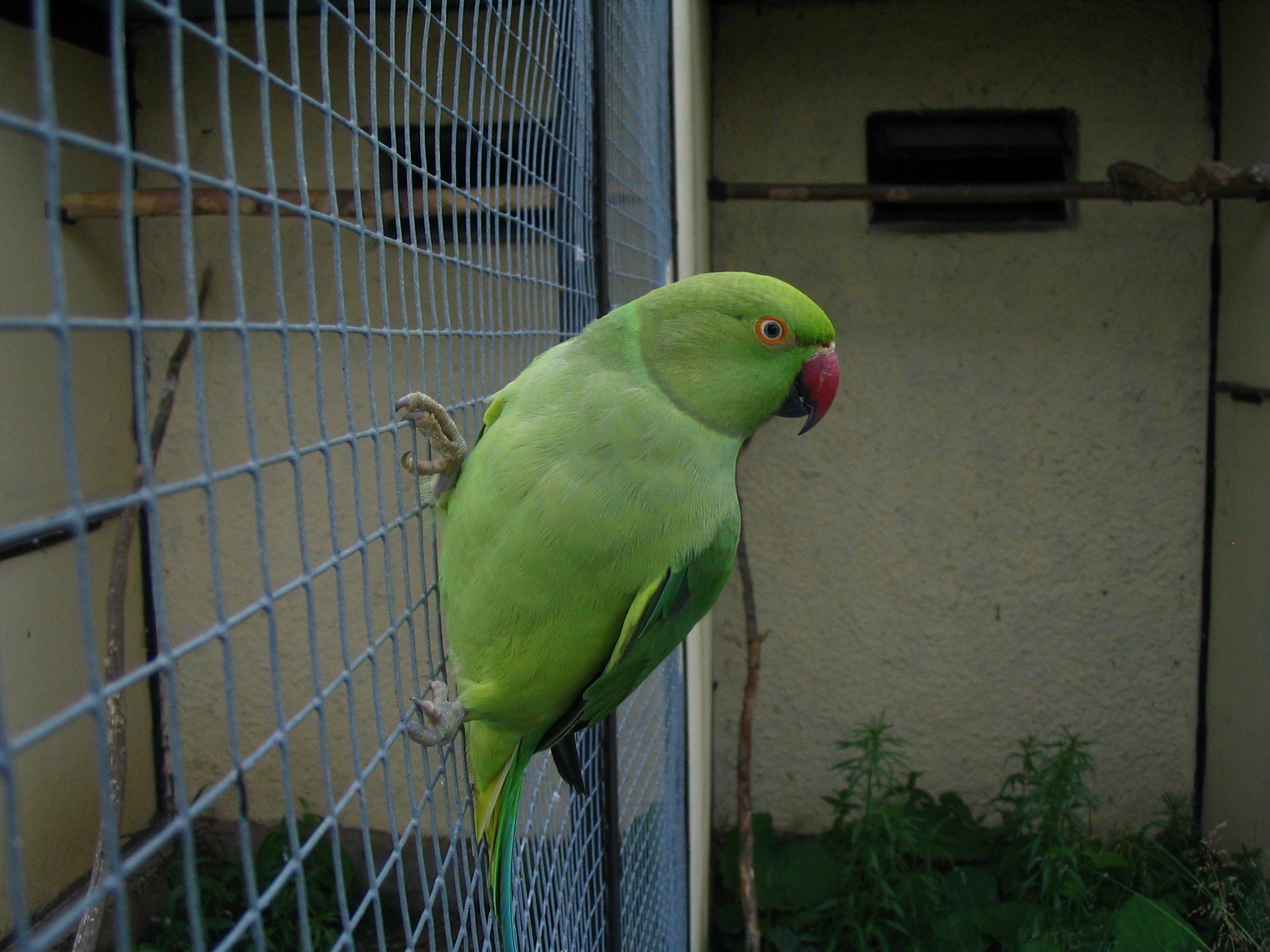 Rose-ringed Parakeet Female, shot in Moscow Region Bird Park.